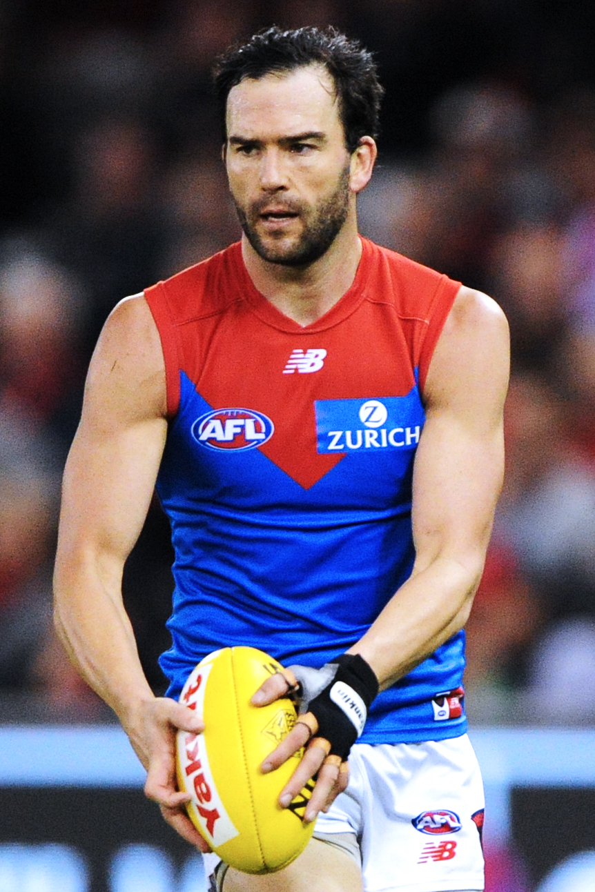 Jordan Lewis of Melbourne during the 2018 AFL round 6 match between Essendon and Melbourne at Etihad Stadium on Sunday, 29 April 2018 in Melbourne, Victoria.